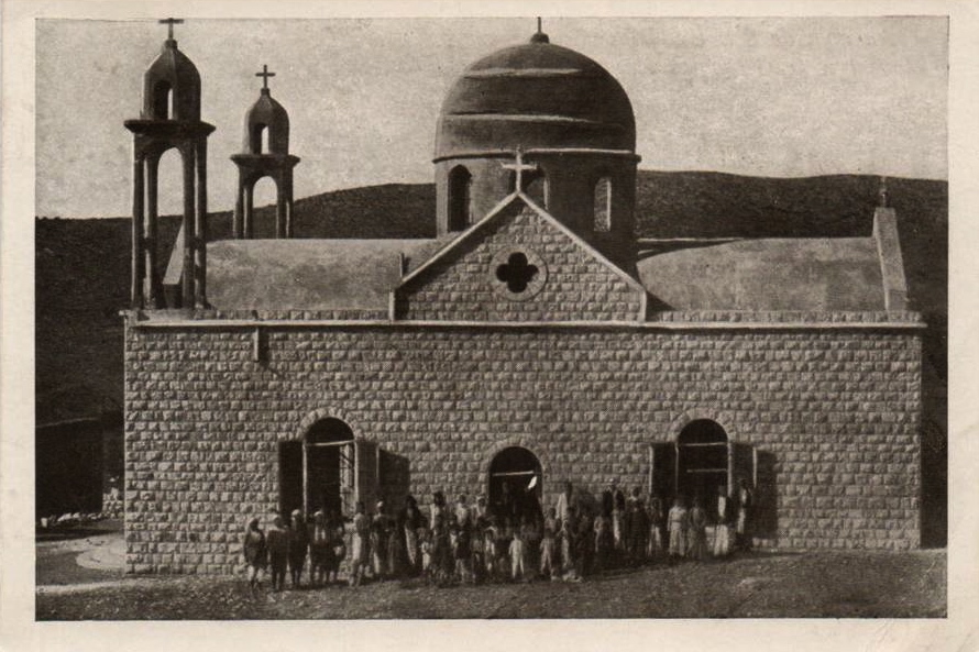 Maloul, Palestine